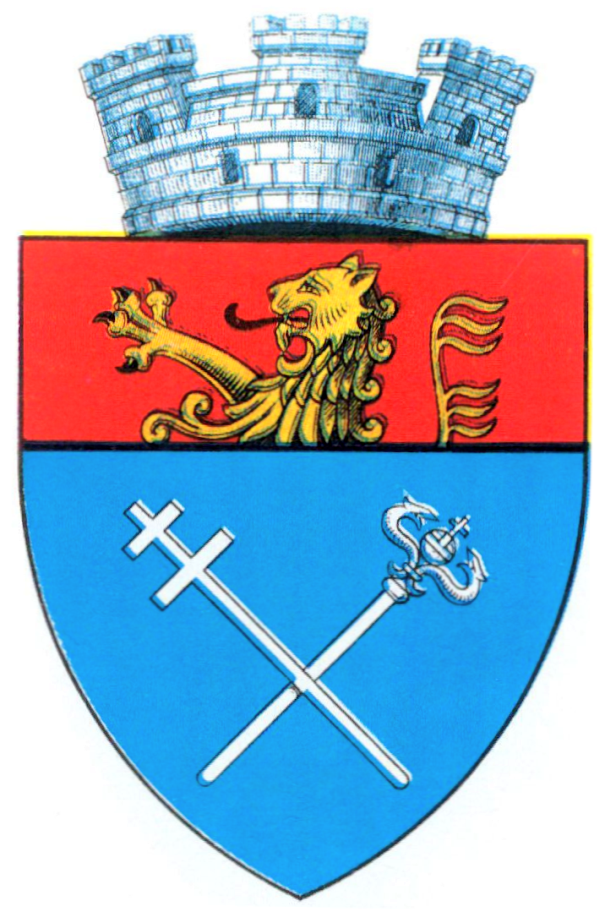 Interwar coat of arms of Strehaia, Mehedinți County, Kingdom of Romania.